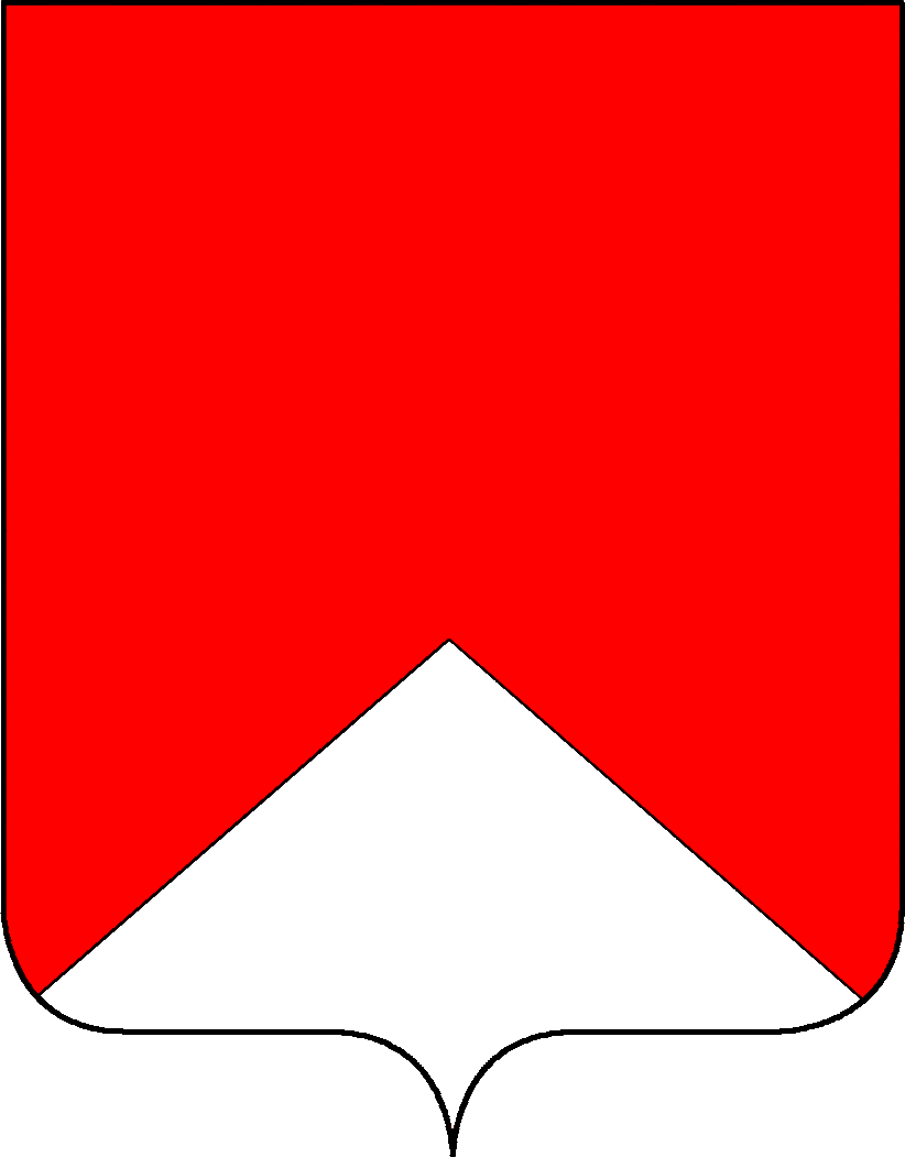 Coat of arms of a branch of Ghisi Family